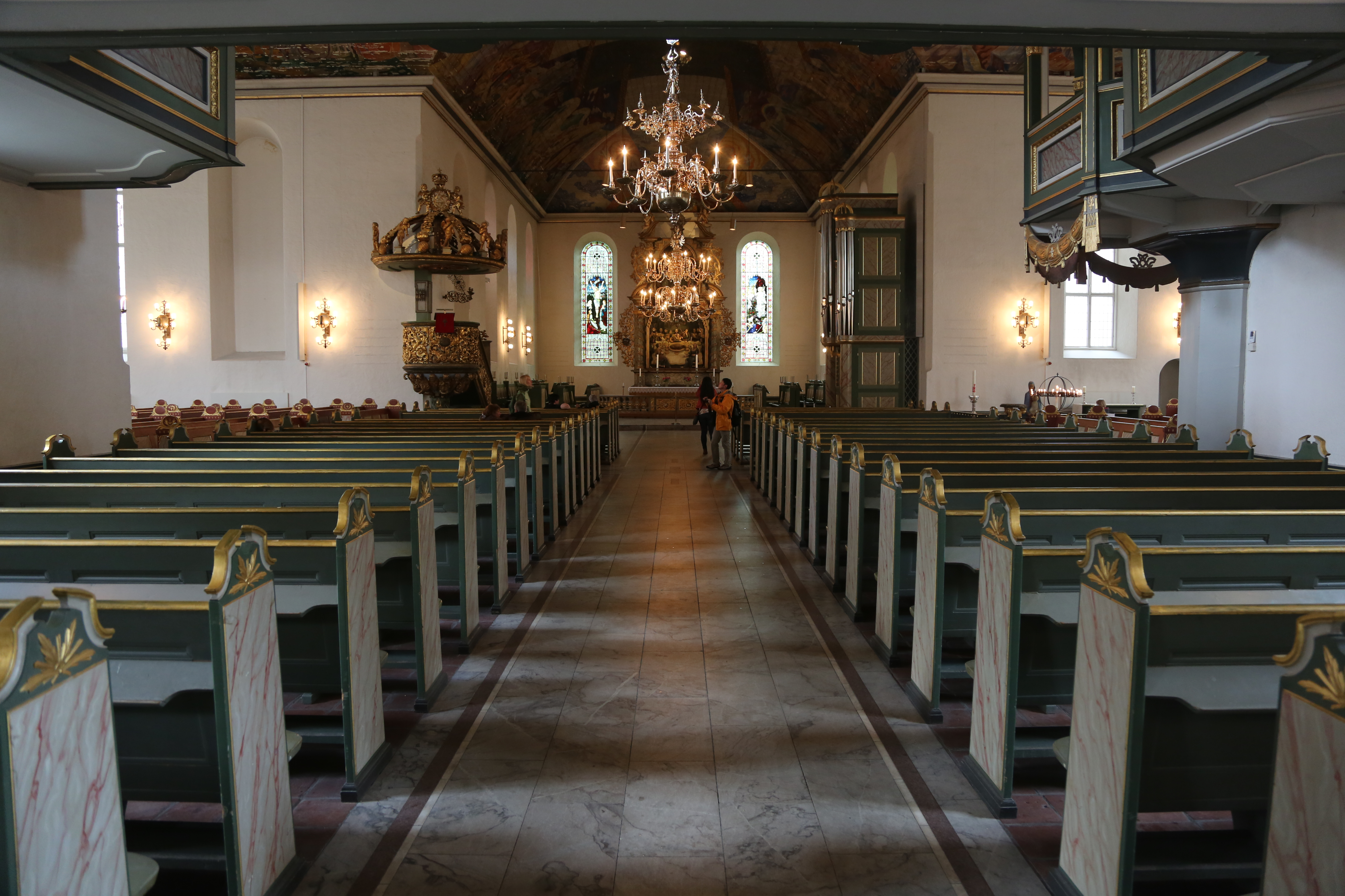 Interior of Oslo domkirke (Oslo Cathedral)